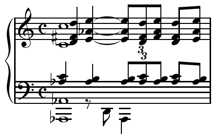 Claude Debussy's (1862–1918) Pélleas et Mélisande prelude measures 5-6. Created by User:Hyacinth using Sibelius and Paint.